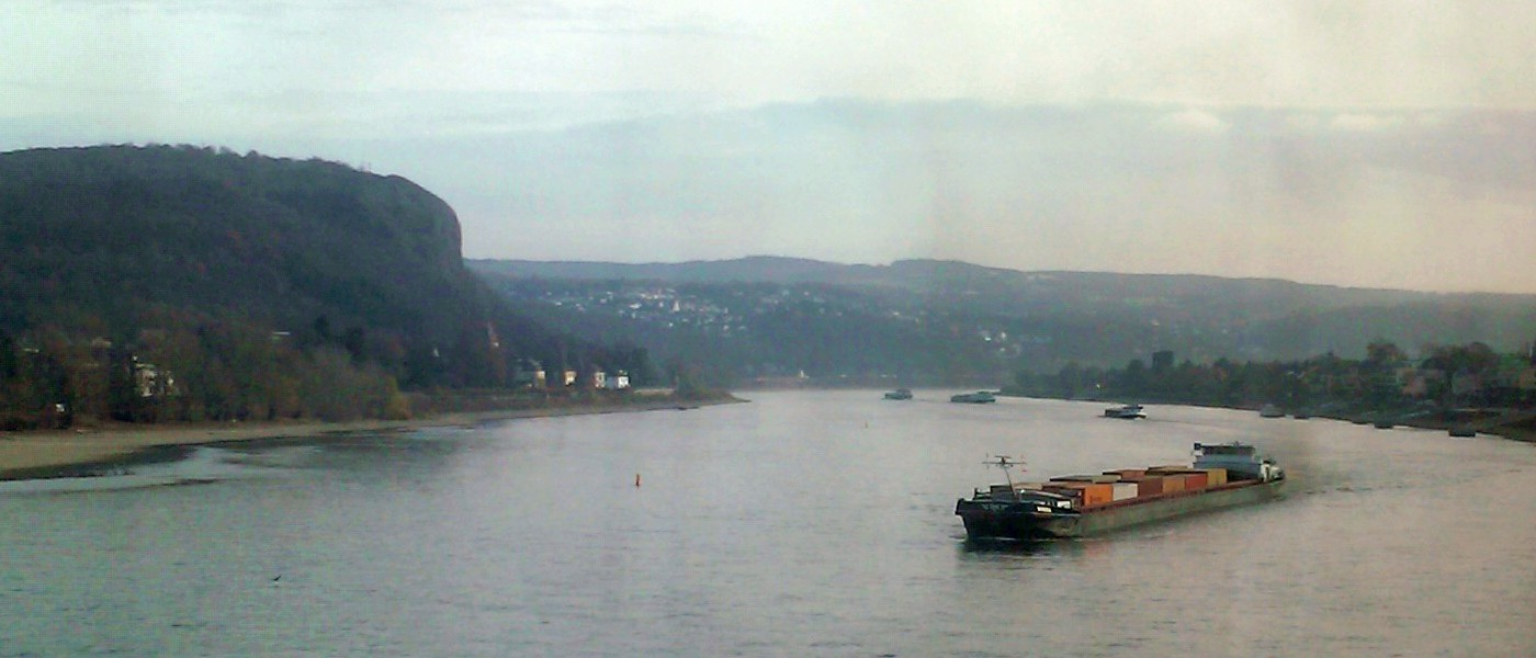 Site of former Remagen Bridge with remaining towers on the banks, view from northwest